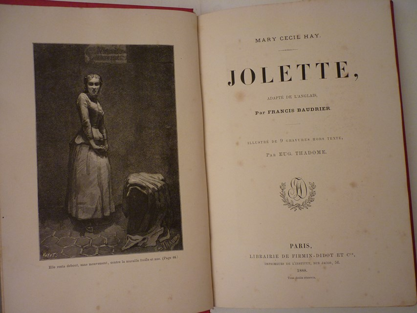 Jolette by Mary Cecil Hay 1888